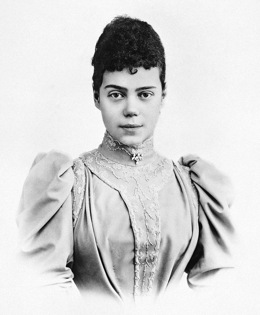 Grand Duchess Xenia Alexandrovna (1875–1960)